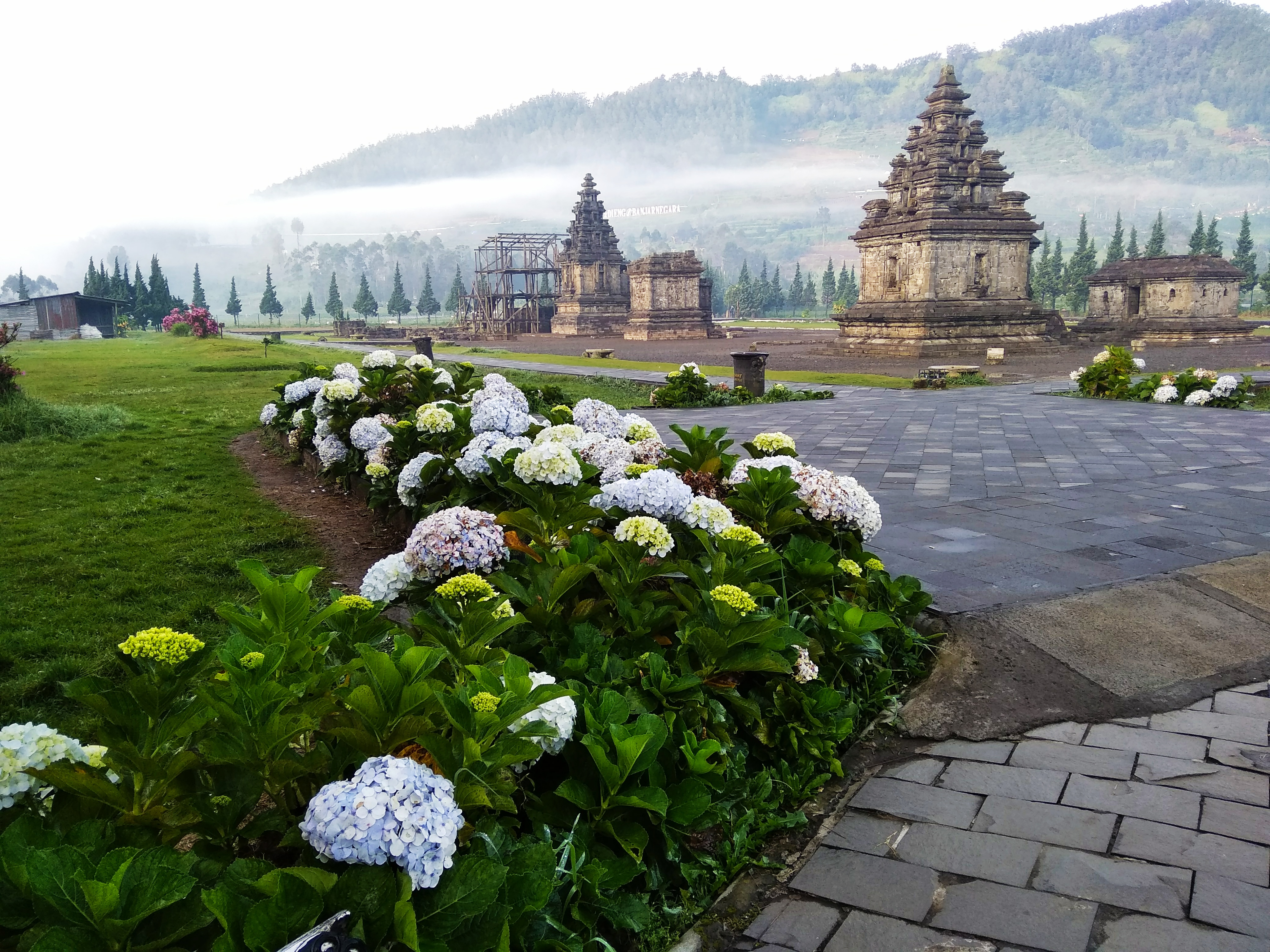 The comlpex of Arjuna temple Dieng Central Java at 06.24 in the morning very fresh and make your soul peaceful.